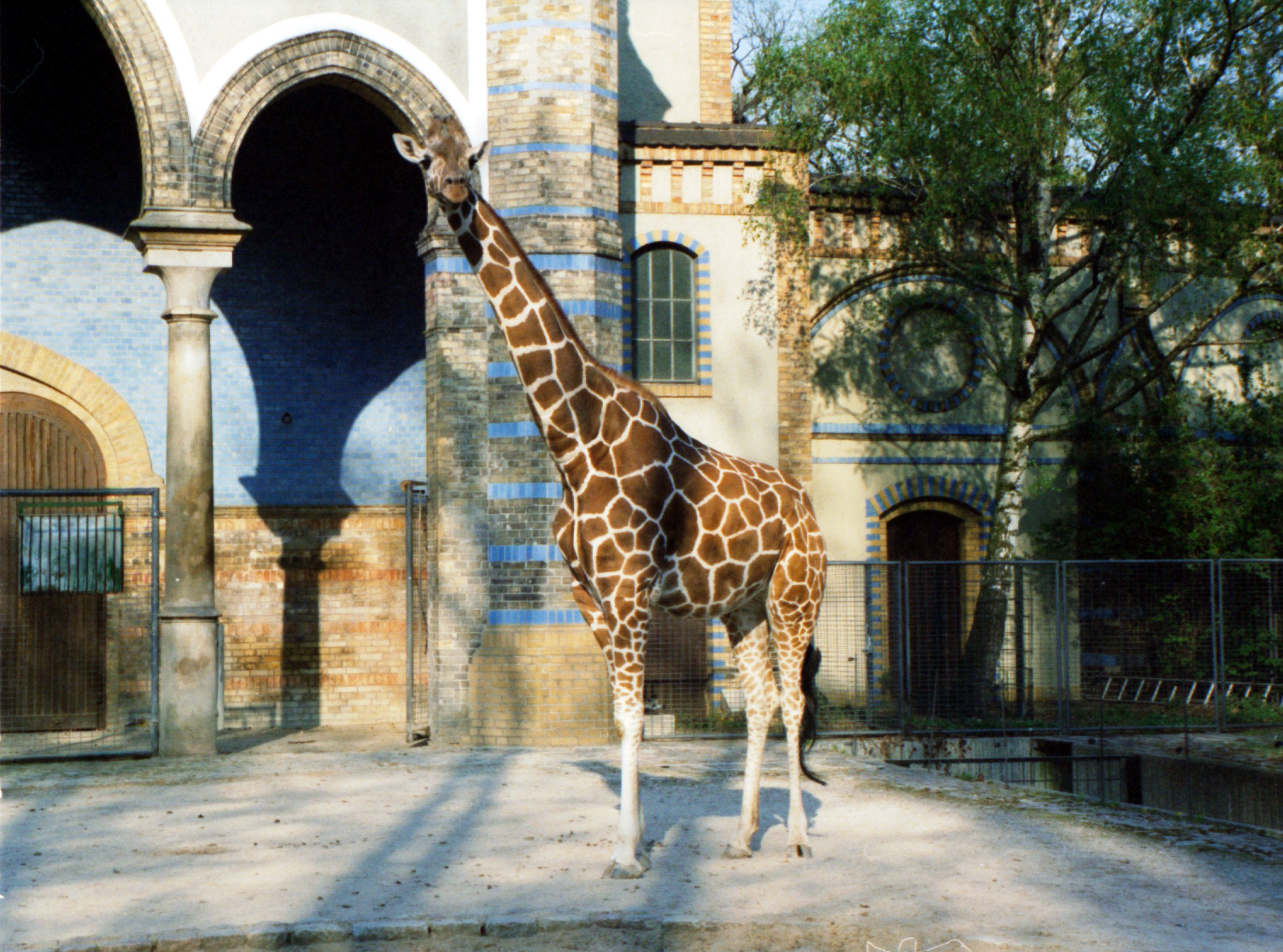 Picture taken at Zoological Garden of Berlin.